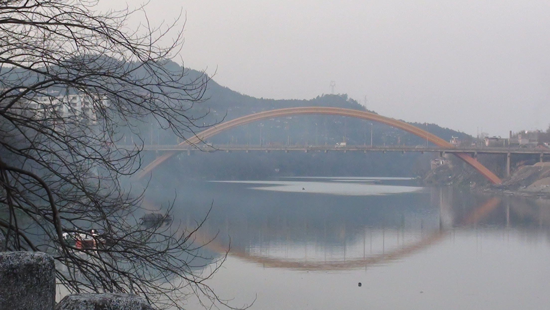 Bridge in Jingdezhen over the Chāng Jiāng (昌江, not the Cháng Jiāng), which flows via the Po River into Lake Poyang